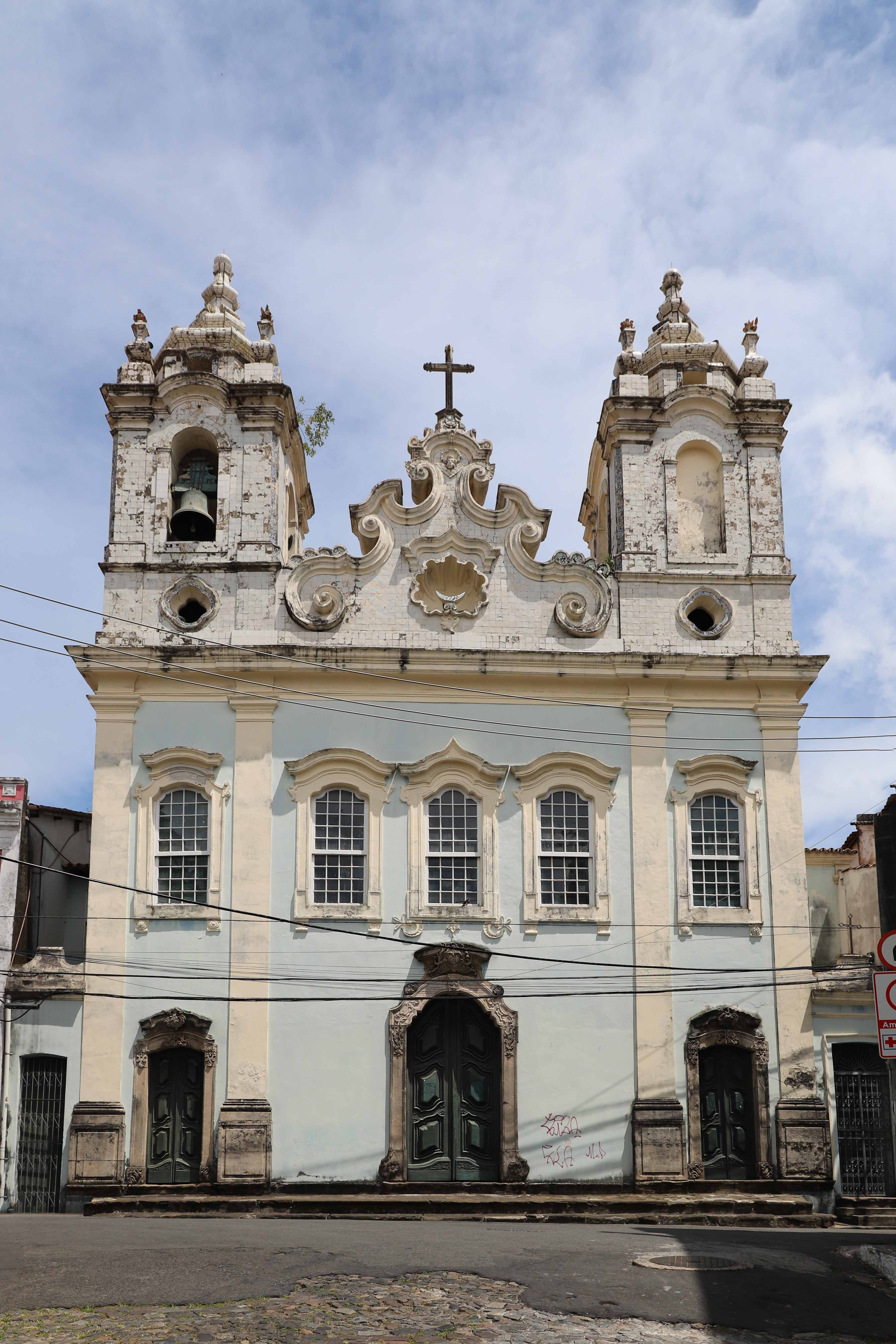 Façade, Igreja de Nossa Senhora da Conceição do Boqueirão, Salvador, Bahia, Brazil.